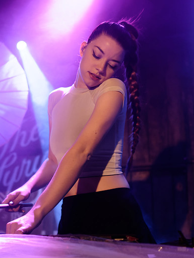 Hana Pestle (HANA) performing at The Lyric Theatre, Los Angeles on March 24th, 2016.